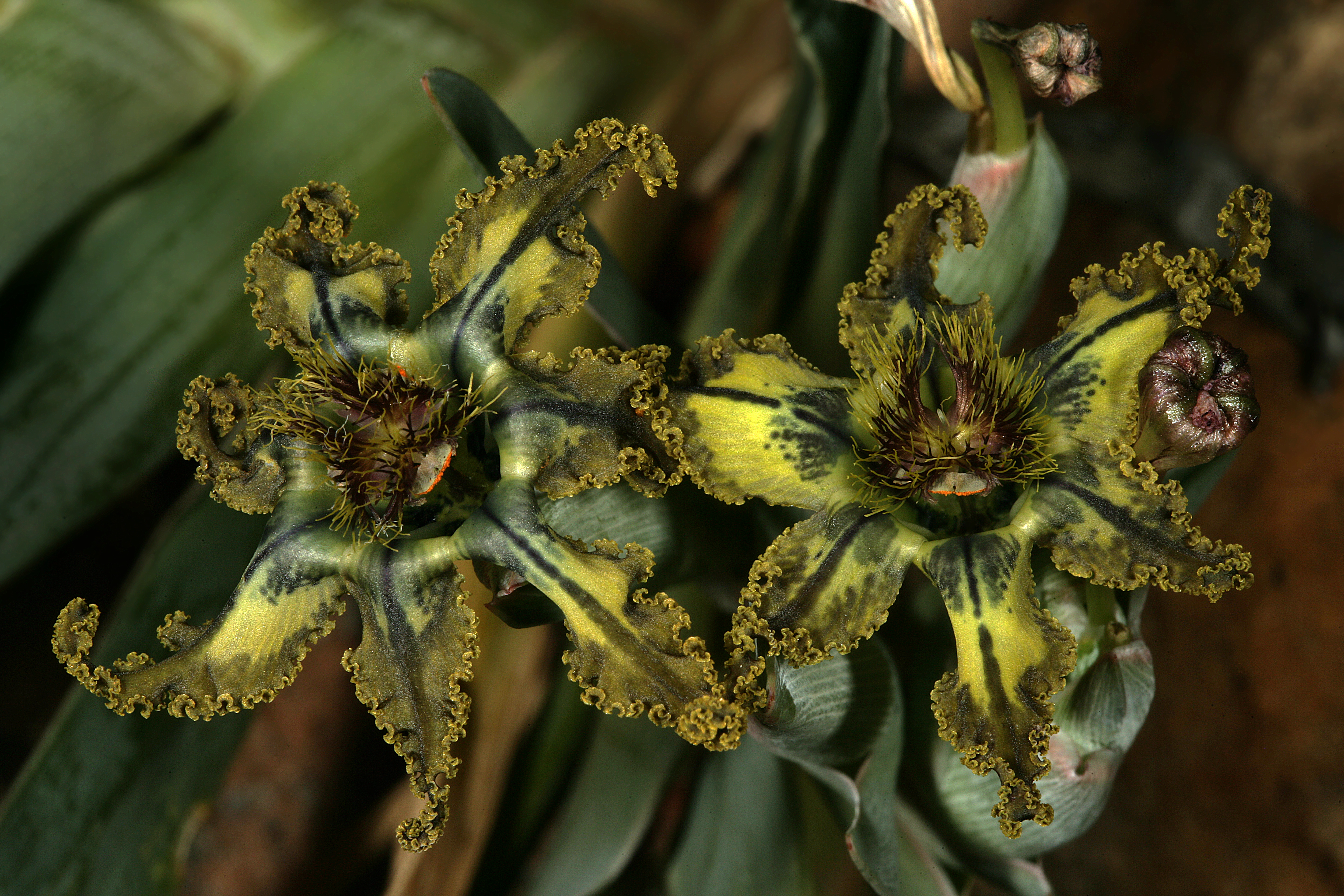 Ferraria variabilis, flowers; Karoo Desert National Botanical Garden, Worcester, Western Cape, South Africa